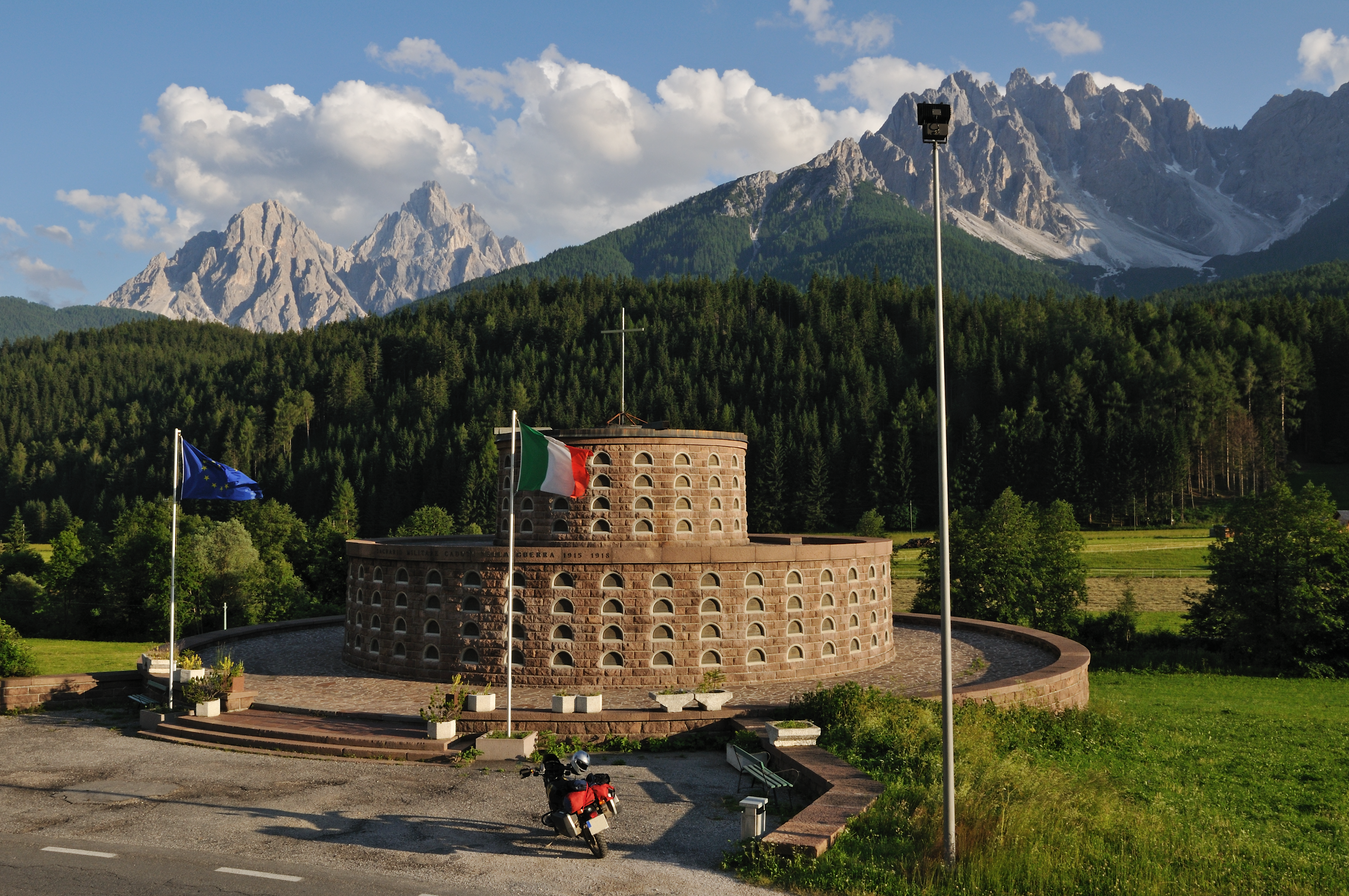 Italian ossuary near Innichen/San Candido (Alto Adige/South Tyrol) - Italy, built in 1939.